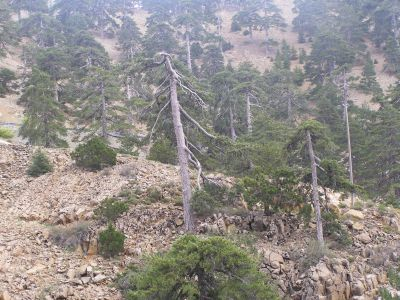 Pinus nigra trees, native to the Troodos Mountains in west-central Cyprus.